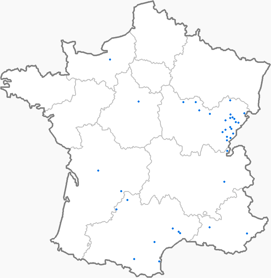 Approximate location of karst springs in France (Metropolitan France). The file shows karst springs are listed in the "List of karst springs in France" in the german Wikipedia. For questions and suggestions contact the author. State border Country border Karst spring